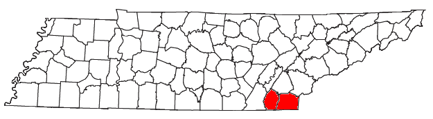 Locator map of the Cleveland Metropolitan Statistical Area in the southeastern part of the U.S. state of Tennessee.